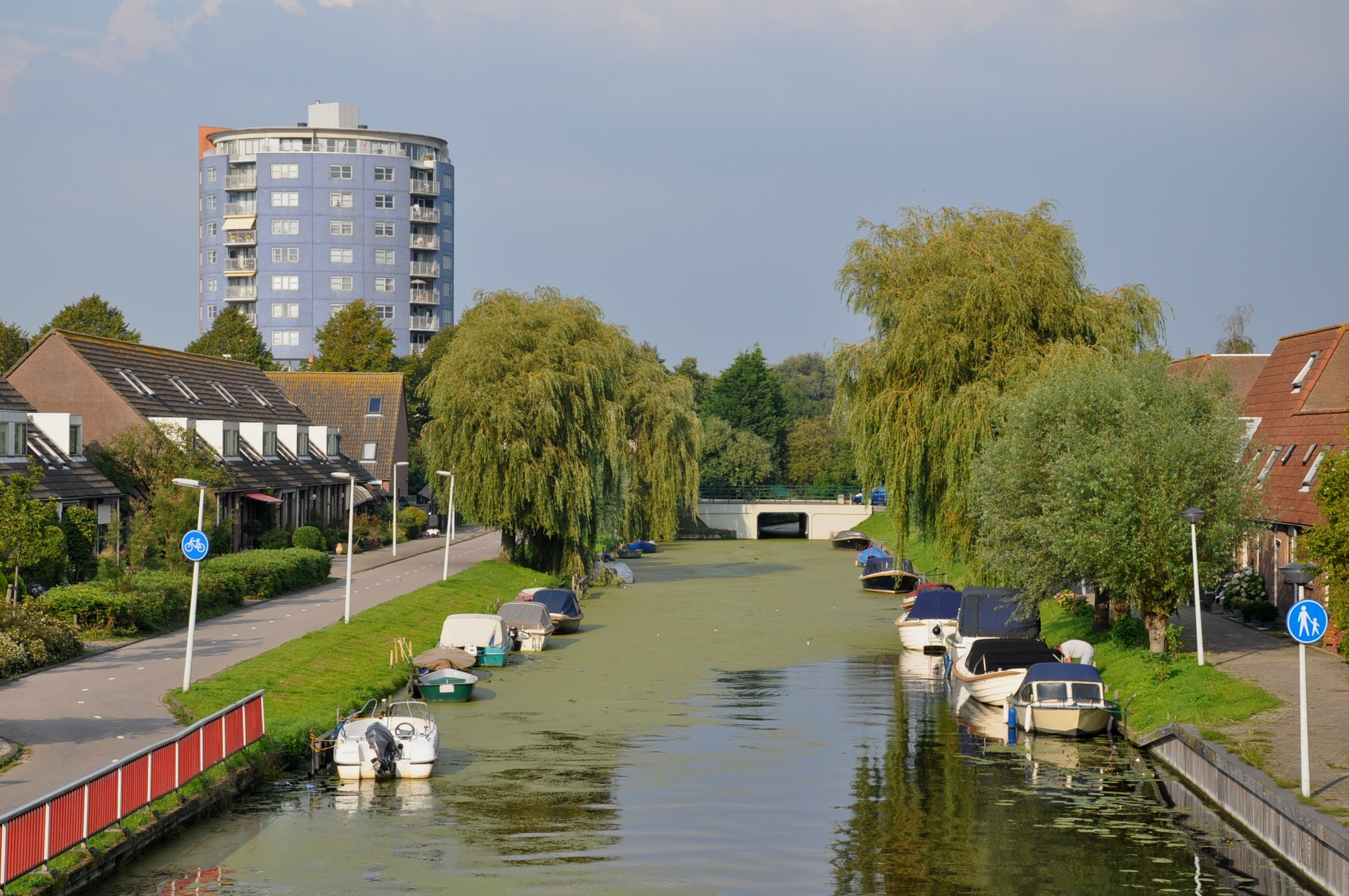 Canal along the Jantina van Hoornkade (left) in the Stevenshof neighborhood in Leiden (Netherlands). In the background the residential tower 'De Schouwpoort' in the Hoge Mors neighborhood.